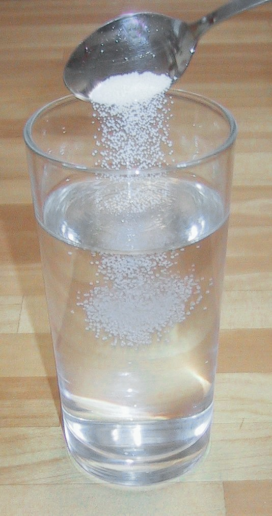 Solution of Salt in Water (regular table salt, regular tap water)